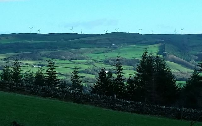 The 12 wind turbines on Moel Maelogan, north Wales